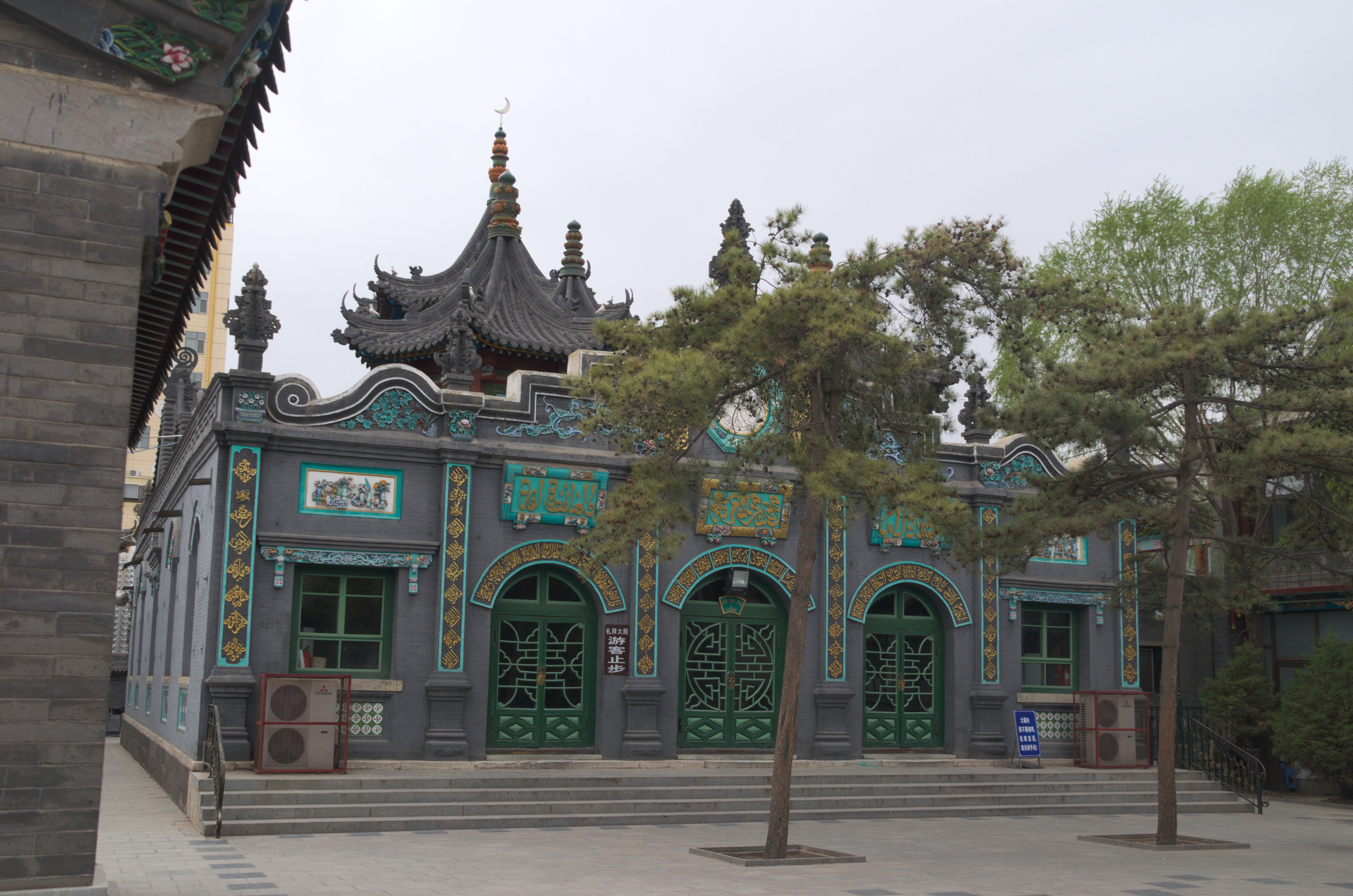 Main building of the Great Mosque of Hohhot, in Inner-Mongolia, China